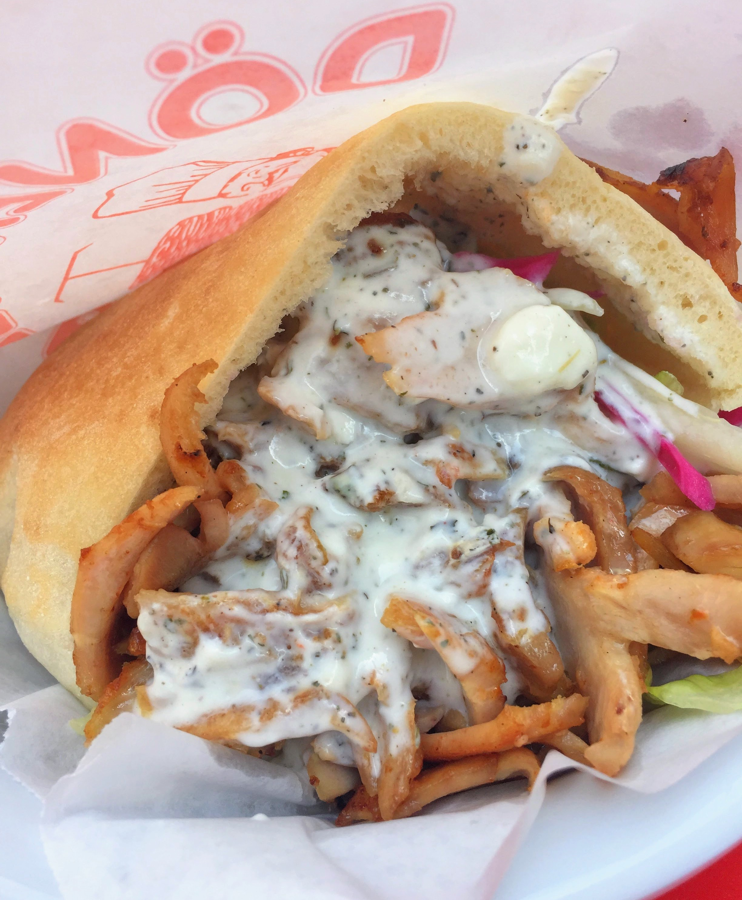 Doner kebab